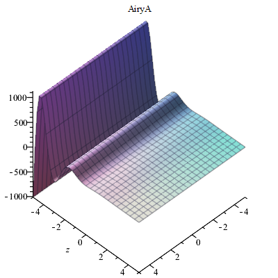 Generalized Airy A(n,z) function